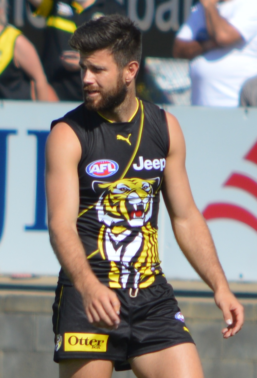 Trent Cotchin with Richmond during a JLT Community Series match against Melbourne in Shepparton in March 2019.